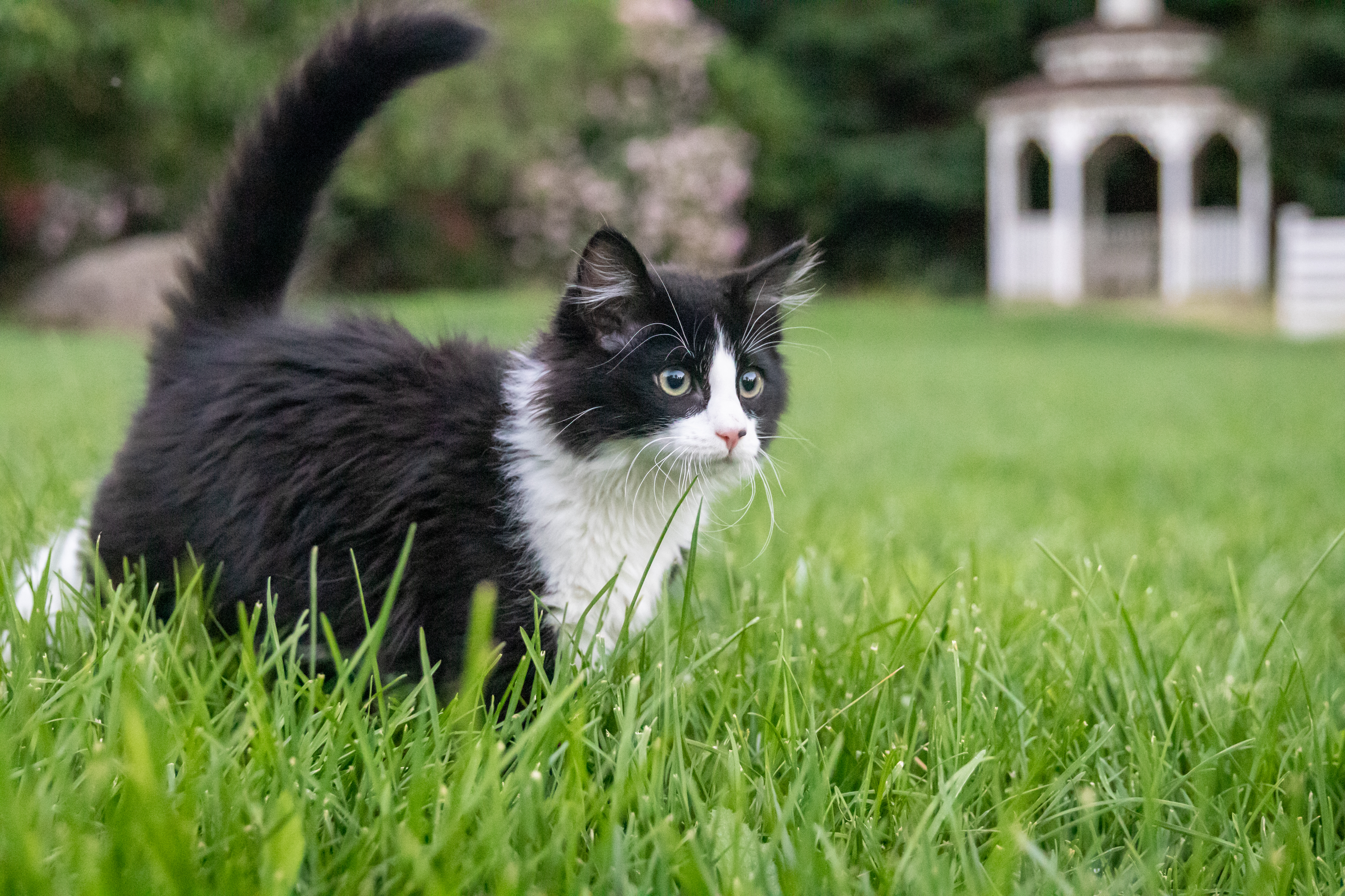 A bicolor cat strolling through a field of grass.